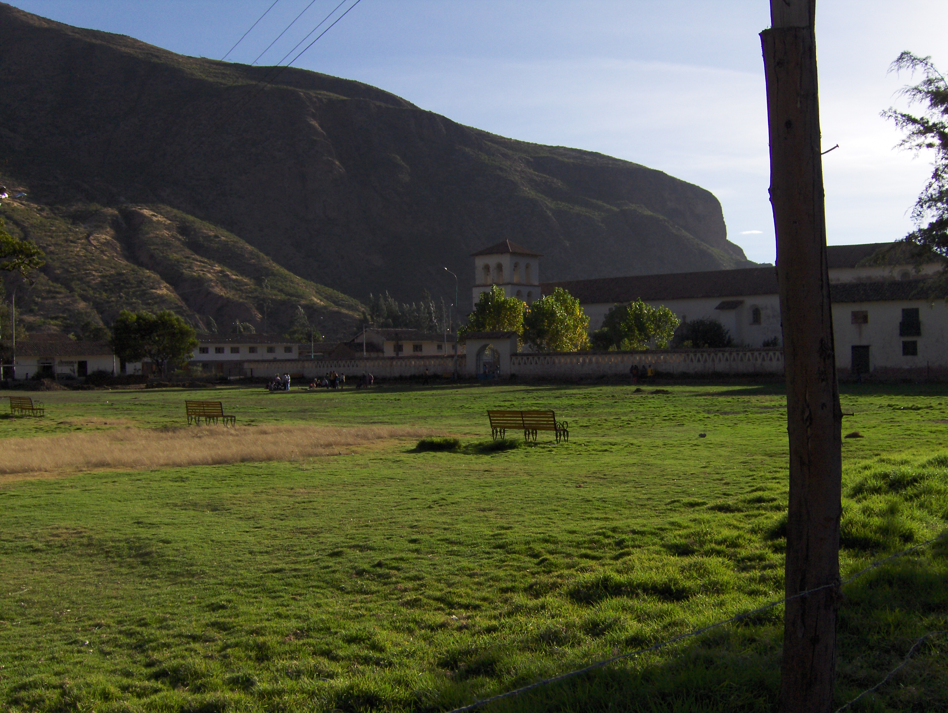 Image across one of the central parks of Yucay, Peru, from my vacation.